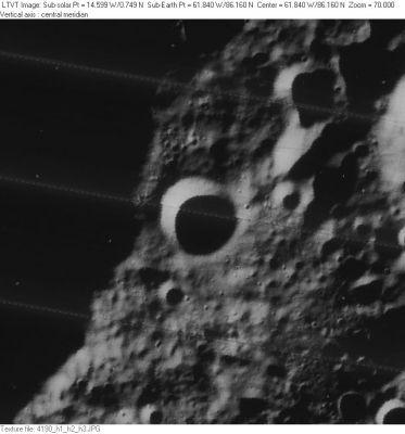 An aerial photograph from the Lunar Orbiter IV showing Gore crater near the Moon's northern pole.